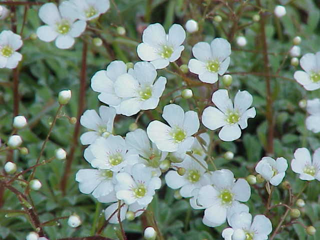 Species: Saxifraga cochlearis Family: Saxifragaceae Image No. 1